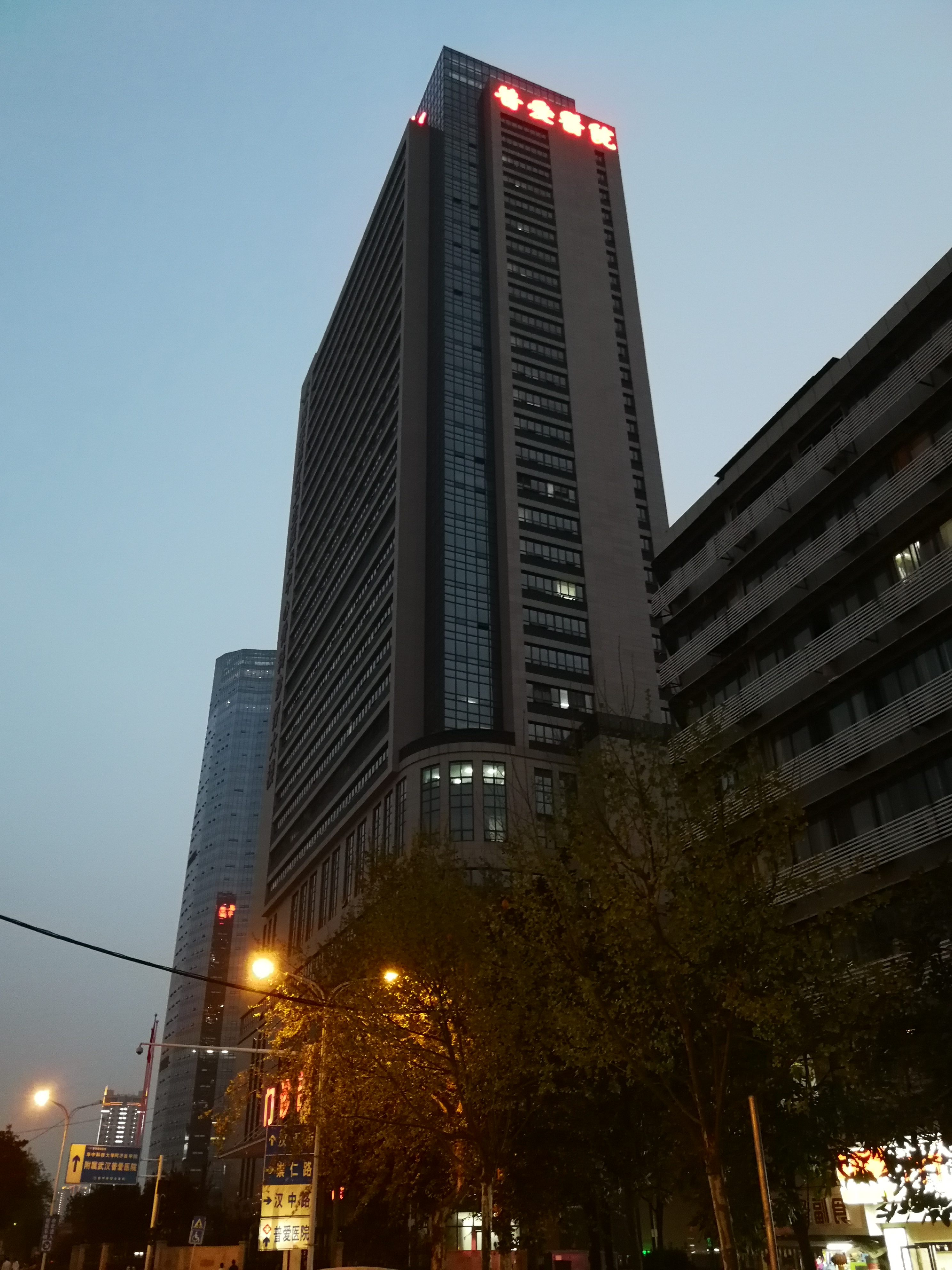 East Area of Wuhan Pu'ai Hospital